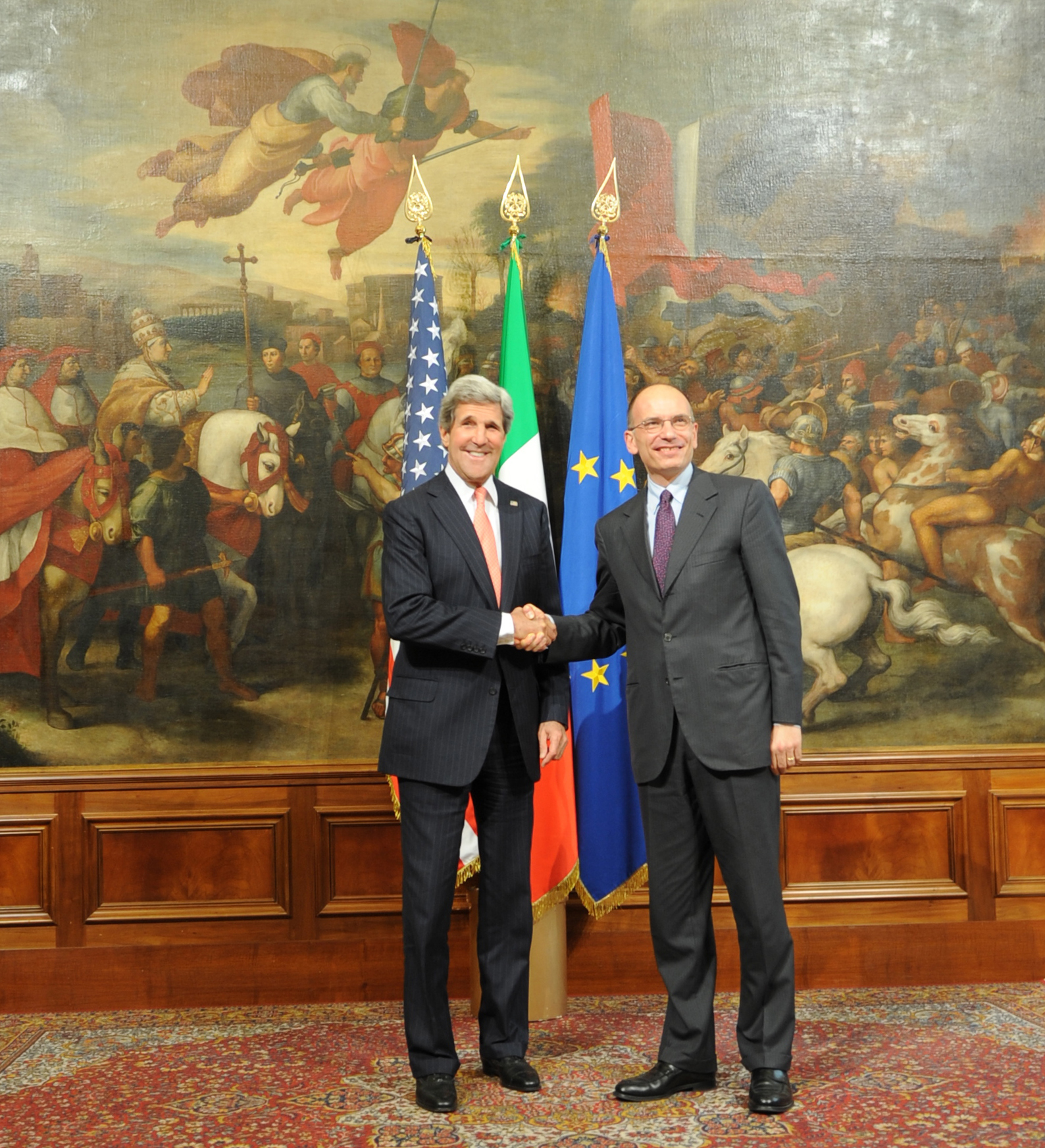 US Secretary of Stae John Kerry meets the Italian Prime Minister Enrico Letta at Palazzo Chigi, Rome, on 23 October 2013.